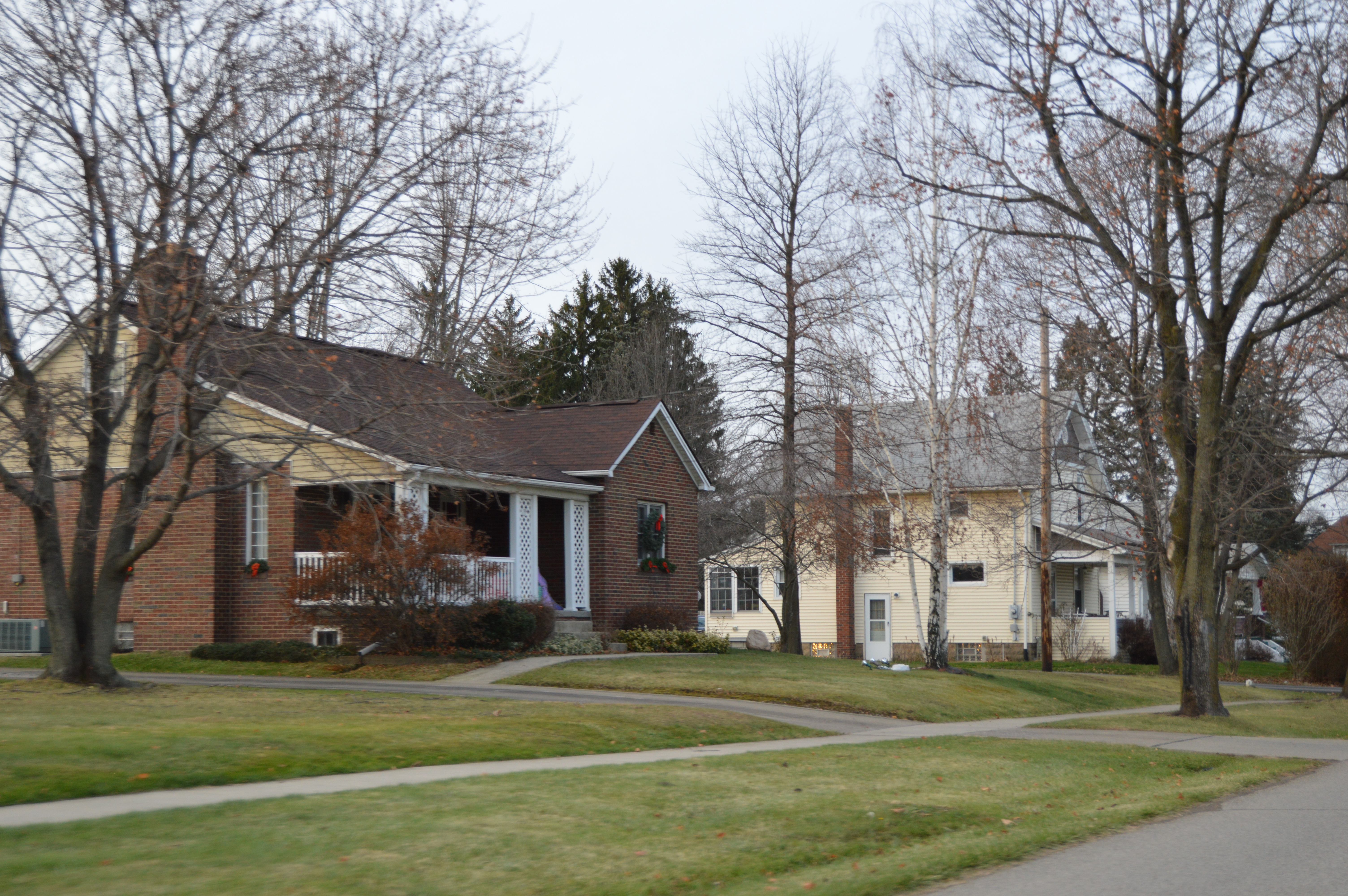 Houses on the western side of King Avenue north of the Kosciuszko Way intersection in Oakwood, Pennsylvania, United States.